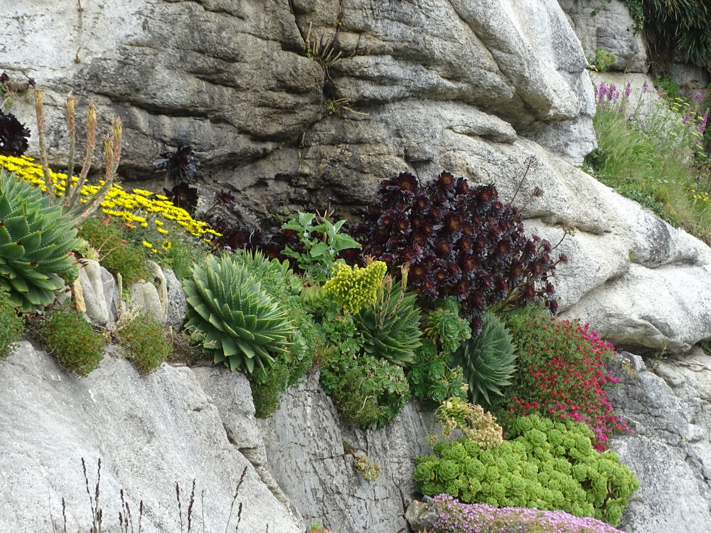 St. Michael's Mount Gardens